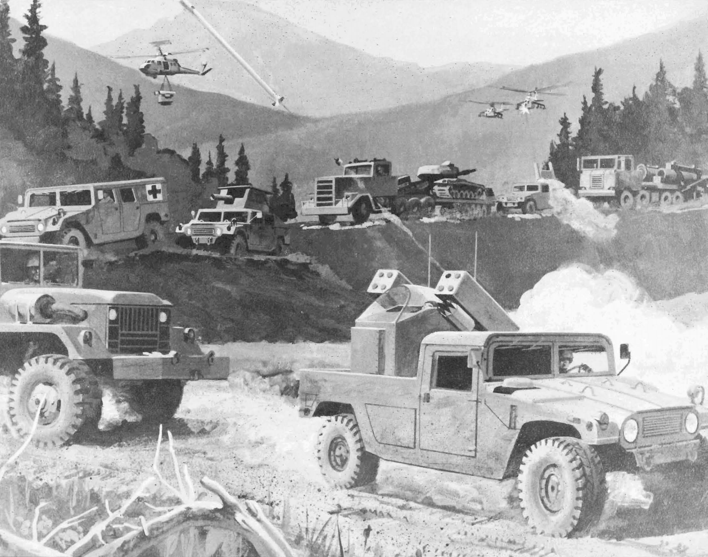 Avenger firing a missile while protecting a convoy.